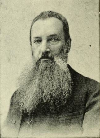 Portrait photograph of Camille Janssen, governor-general of the Congo Free State 1886-1892.